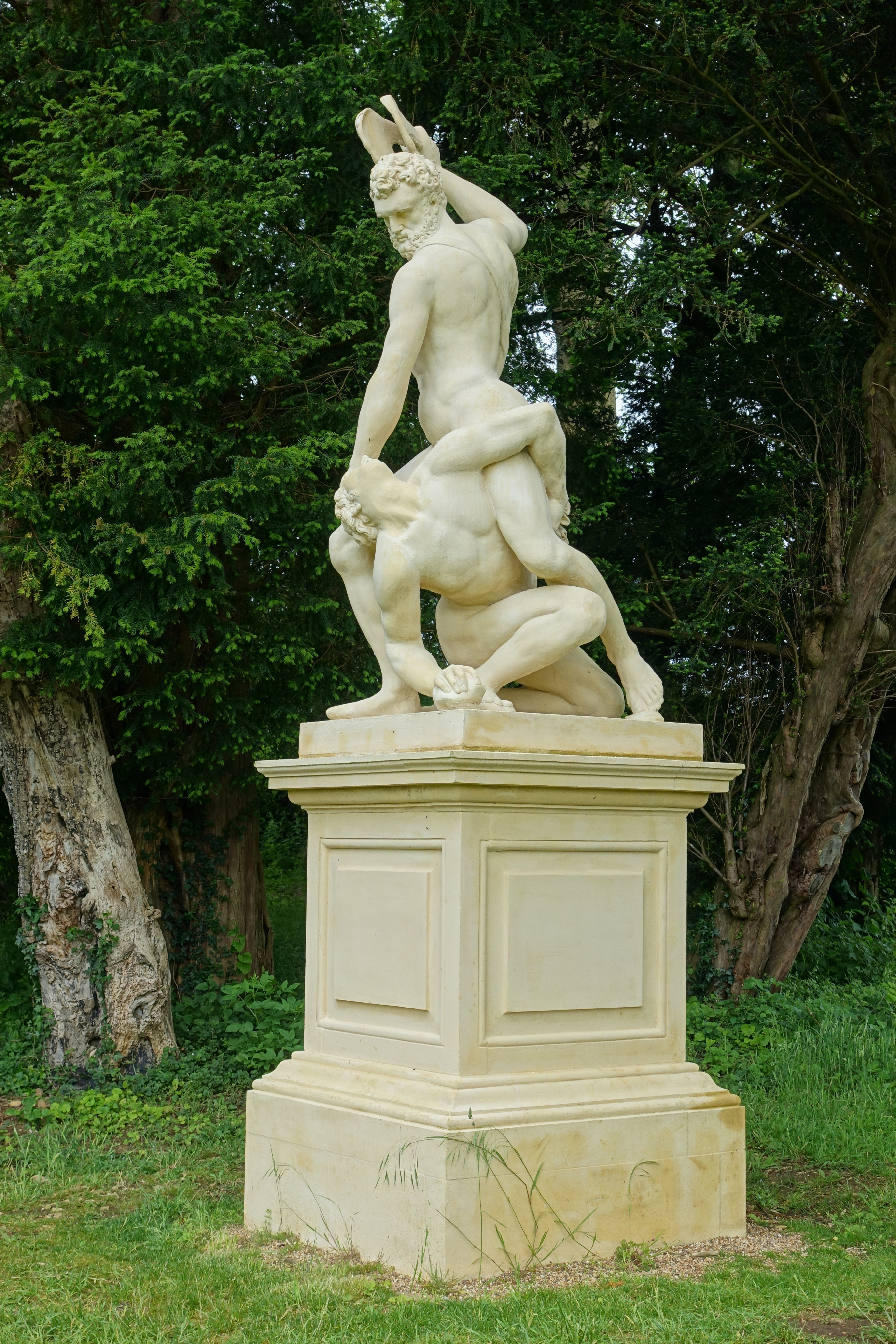 Stowe Gardens - Buckinghamshire, England.